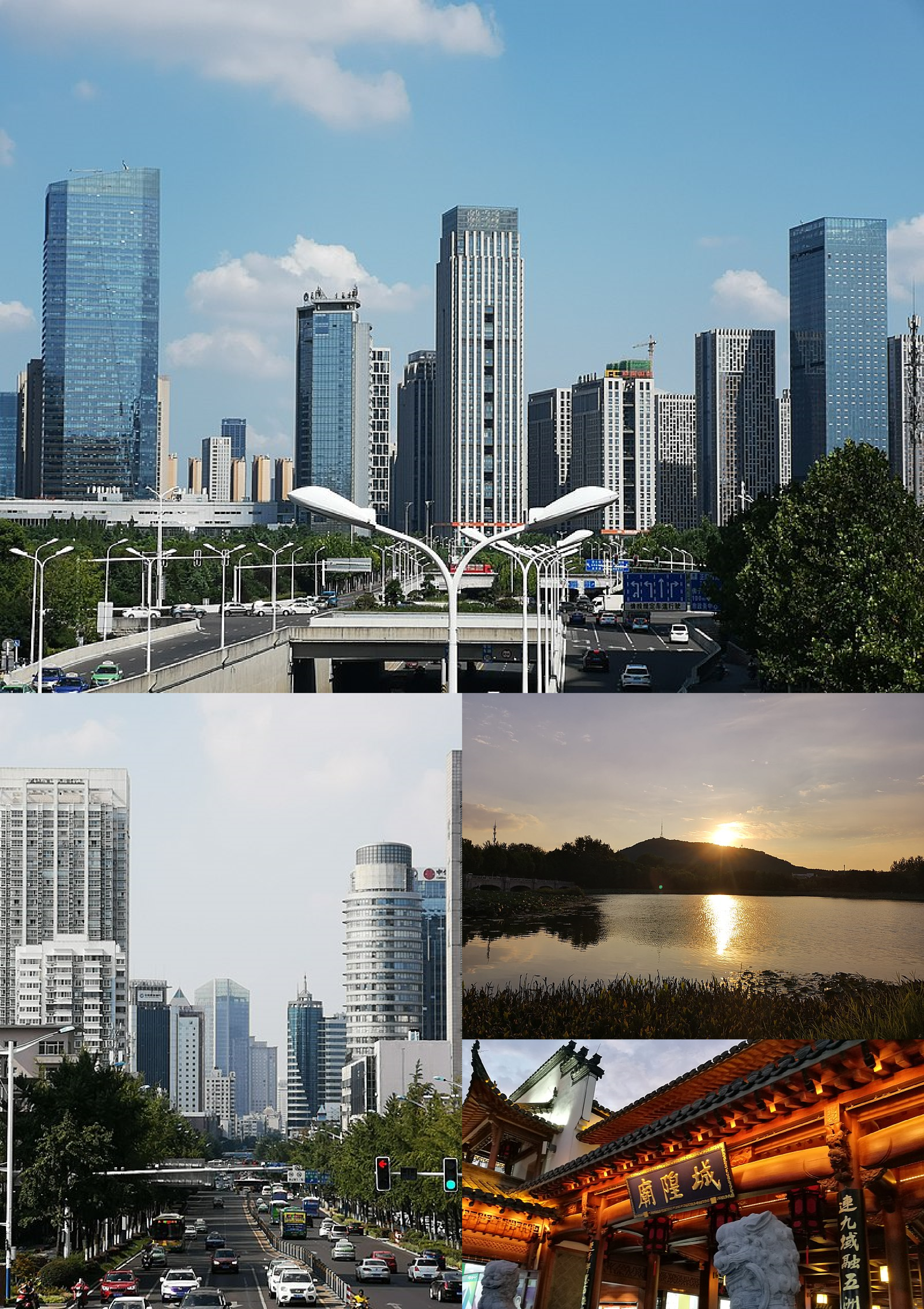 Montage of Hefei. Clockwise from top: Swan Lake Eastbank CBD, Dashushan, City God Temple of Luzhou-Fu and Downtown Hefei.